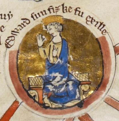 Edward the Exile, from a pedigree of Edmund Ironside in 13th century manuscript